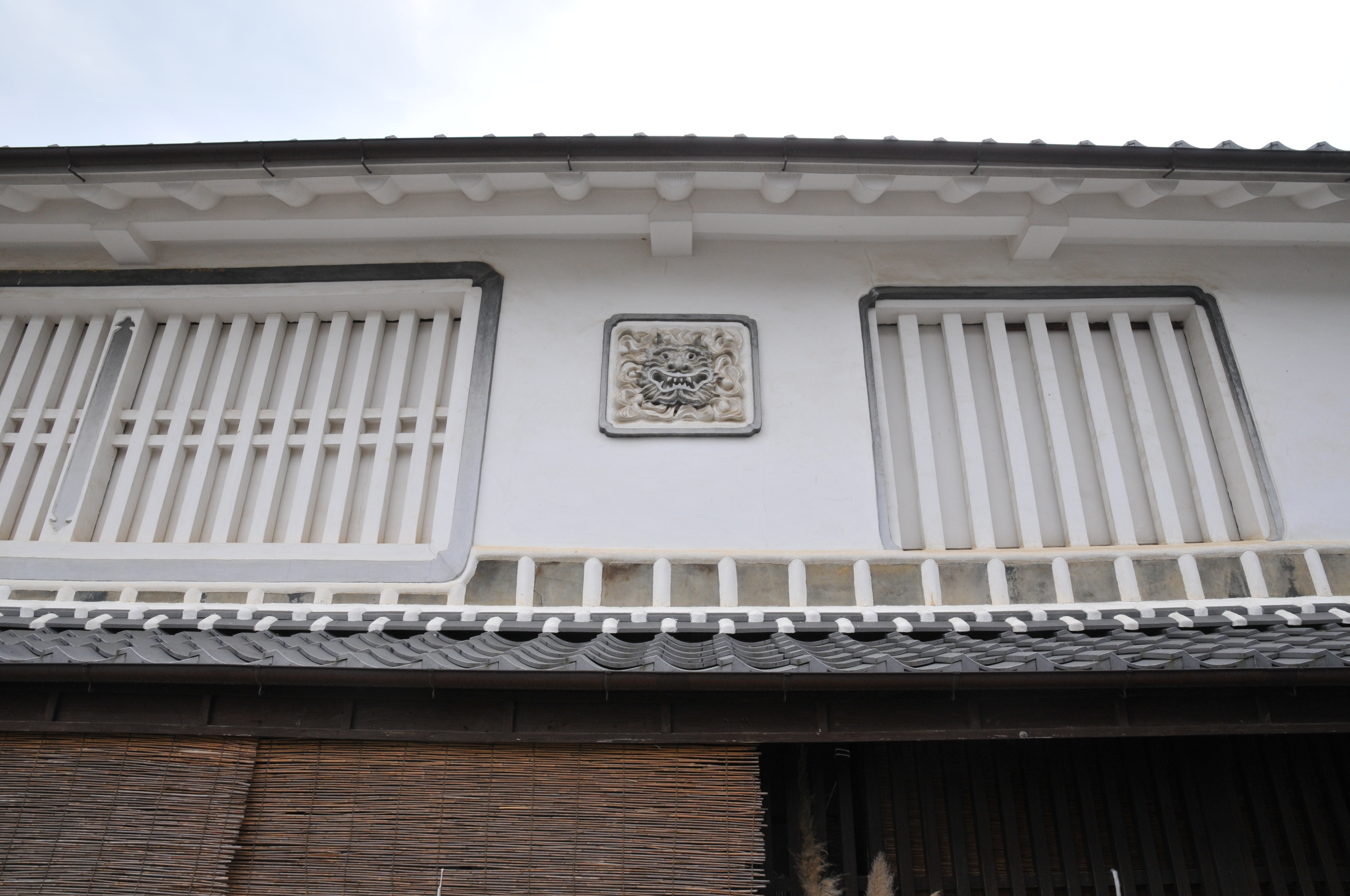 Kote-e and Kōshi-mado window, Yokaichi Gokoku